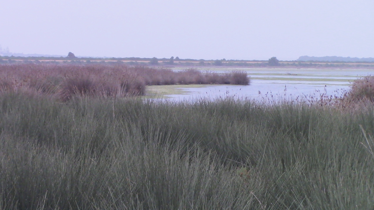 Sidi Moussa Lagoon Nature Preserve - View